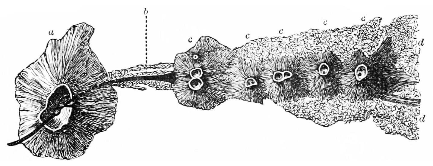 Fissure on Etna during eruption of 1865